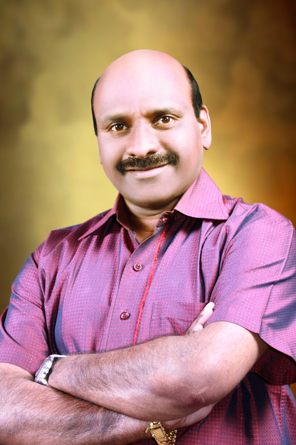 Periyasamy Chandrasekaran (16 April 1957 – 1 January 2010) was a Sri Lankan politician. He was a member of the Parliament of Sri Lanka and a government minister.